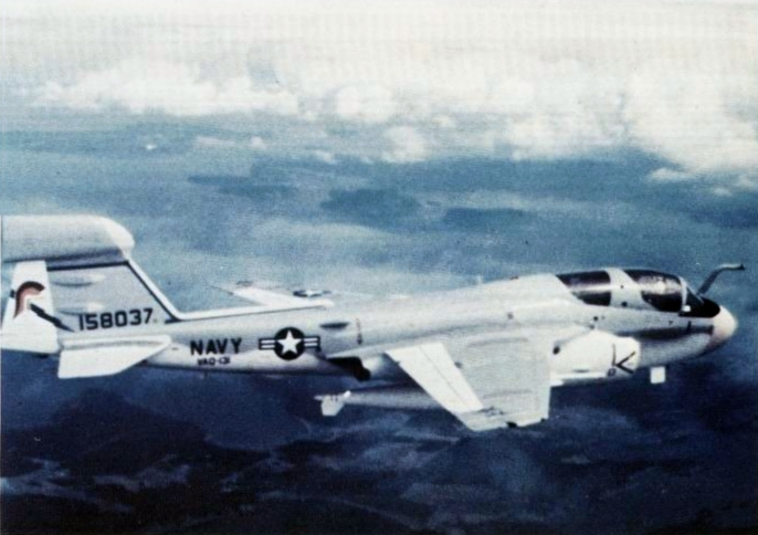 A Grumman EA-6B-30-GR Prowler (BuNo 158037) from Tactical Electronic Warfare Squadron VAQ-131 Lancers in flight. VAQ-131 was assigned to Carrier Wir Wing 14 (CVW-14) aboard the aircraft carrier USS Enterprise (CVAN-65) for a deployment to Vietnam from 12 September 1972 to 12 June 1973, this being the second EA-6B squadron to deploy to Vietnam. The EA-6B 15803 was later lost in a crash near Palermo, Sicily (Italy), on 16 December 1979, while in service with VAQ-134. 3 crewmen ejected safely, one was killed.